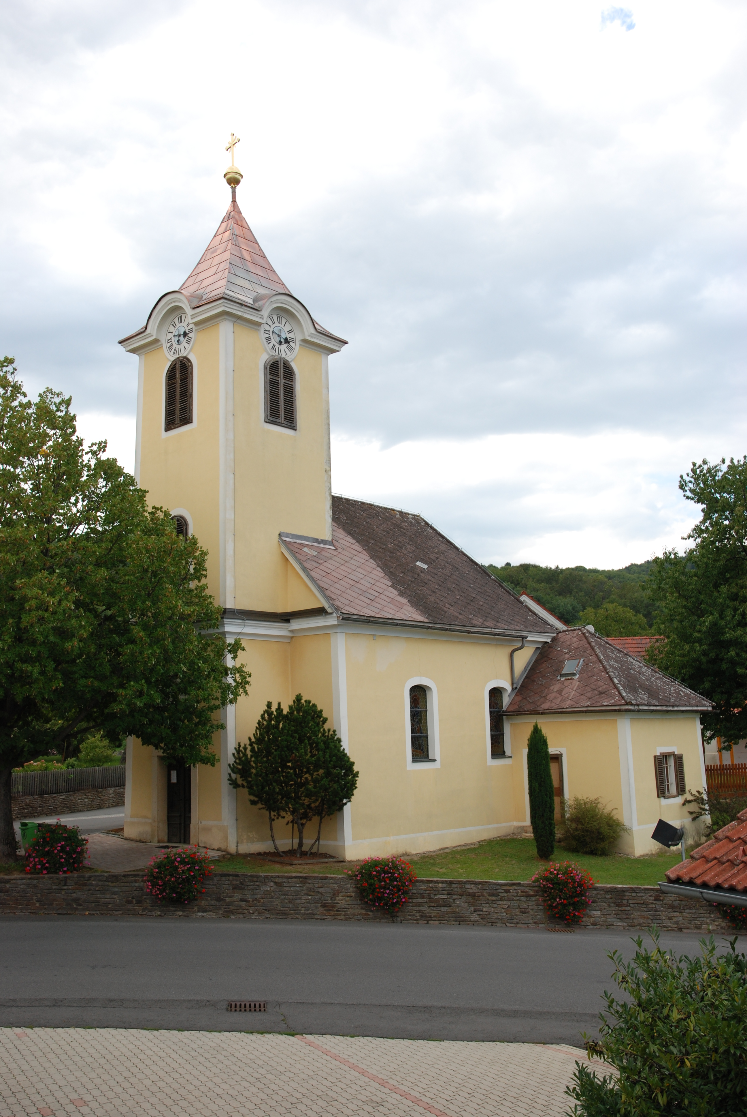 Kapelle Frutten-Gießelsdorf